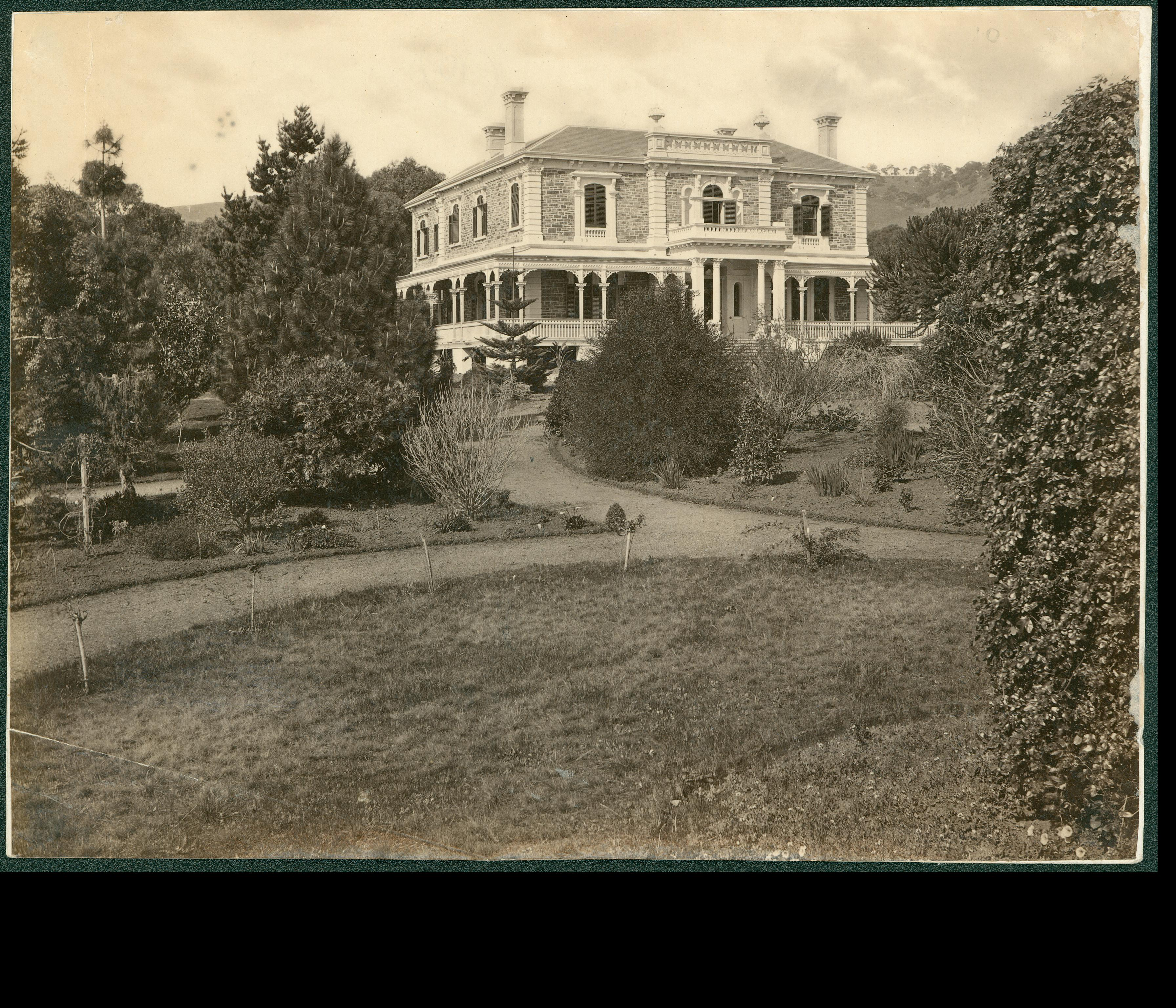 Glen Osmond: "Benacre" Benacre house (without land) is at 6 Benacre Close, off Glen Osmond Rd between Fisher St and Fergusson Ave. 1844 a single-storeyed house was built by G.F. Shipster after the subdivision of section 270 by the main road it passed to Robert Cock. 1846 Purchased on 16 acres by William Bickford who planted the first garden and built a portion of the residence. The next owner was T.B. Strangways, followed by Thomas Graves, who had the grounds replanted as a shrubbery and built 'the present two-storey house.' mid-1870's: Henry Scott, Mayor of Adelaide. During Scott’s tenure of some 30 years, he hosted countless social events. 1906-1923 John Lewis At the death of Hon. John Lewis the property was subdivided into 39 building blocks. 1924-1968 Gretta Lewis ... 1970 Further subdivision: Benacre subdivision [fifteen magnificent residential allotments, the gracious mansion 'Benacre', two storeyed stone mews, to be sold by auction on the estate 2nd May, 1970 at 10.30 a.m.] Adelaide : Matters & Co. Pty. Ltd. [and] Theodore Bruce & Co. Pty. Ltd. ...